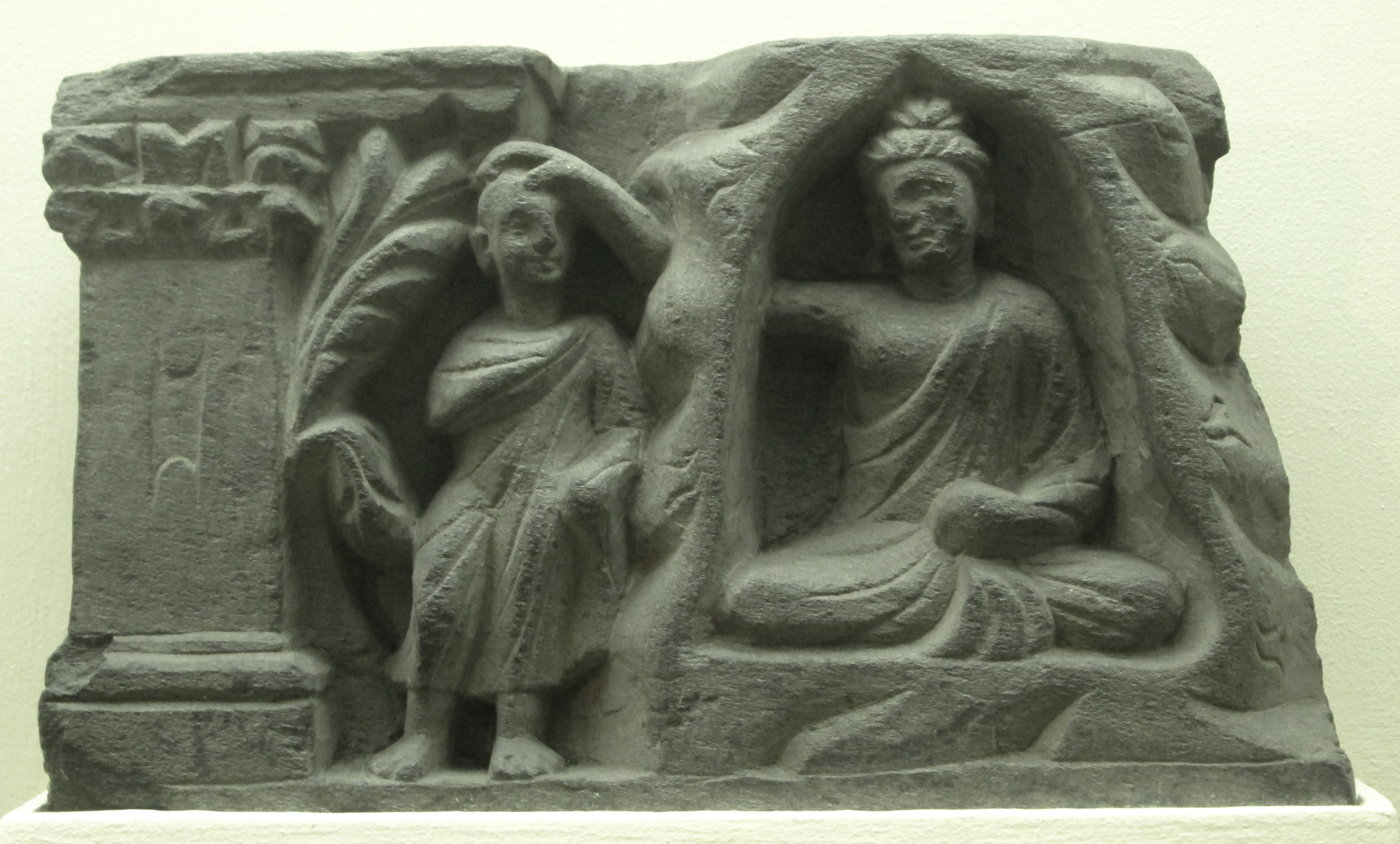 054 Consolation of Ananda at Gijjhakuta, Jamalgarhi, at the Indian Museum, Kolkata Photograph from the Indian Museum in West Bengal taken by Anandajoti.